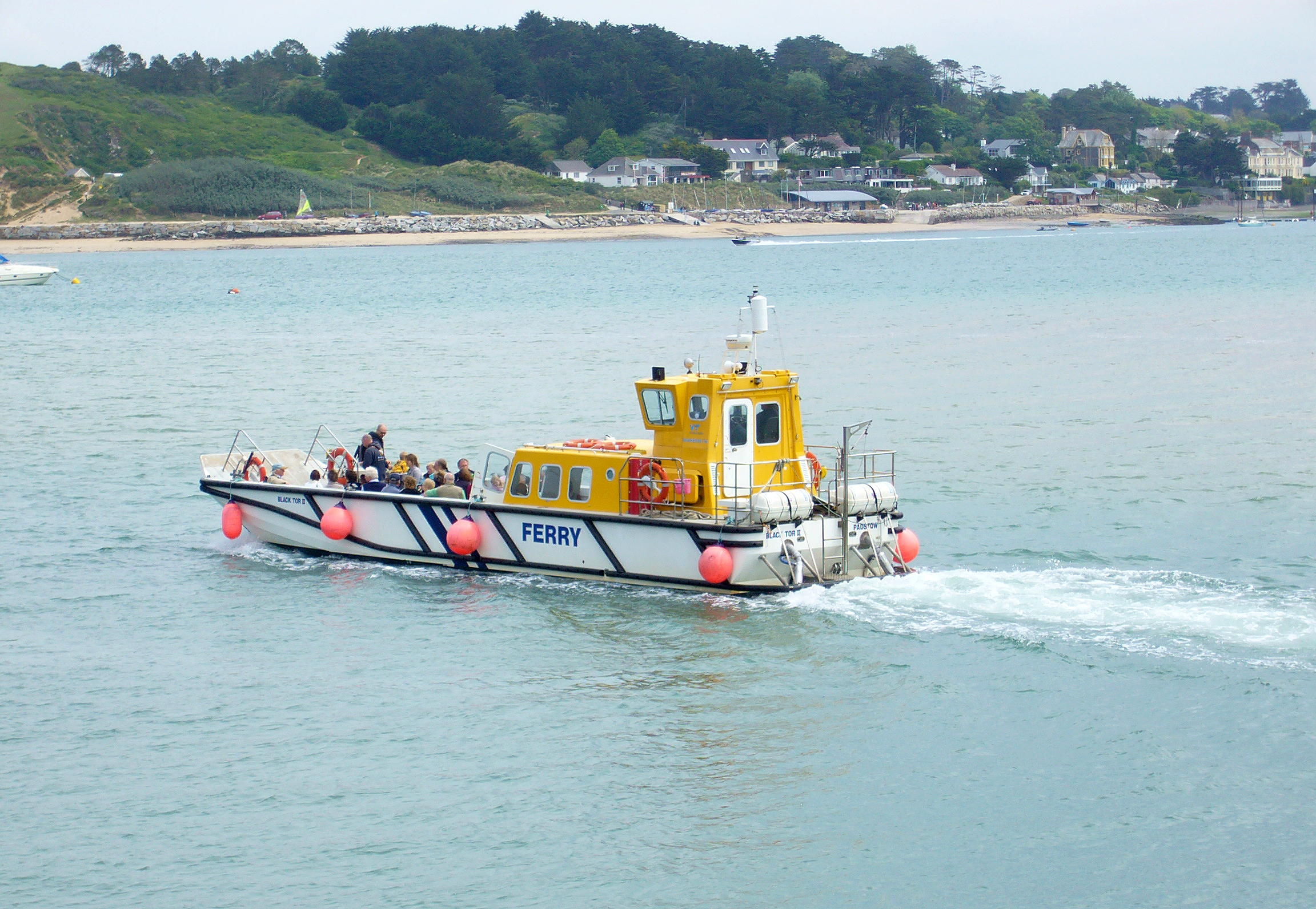 Passenger ferry from Padstow to Rock, Cornwall, England